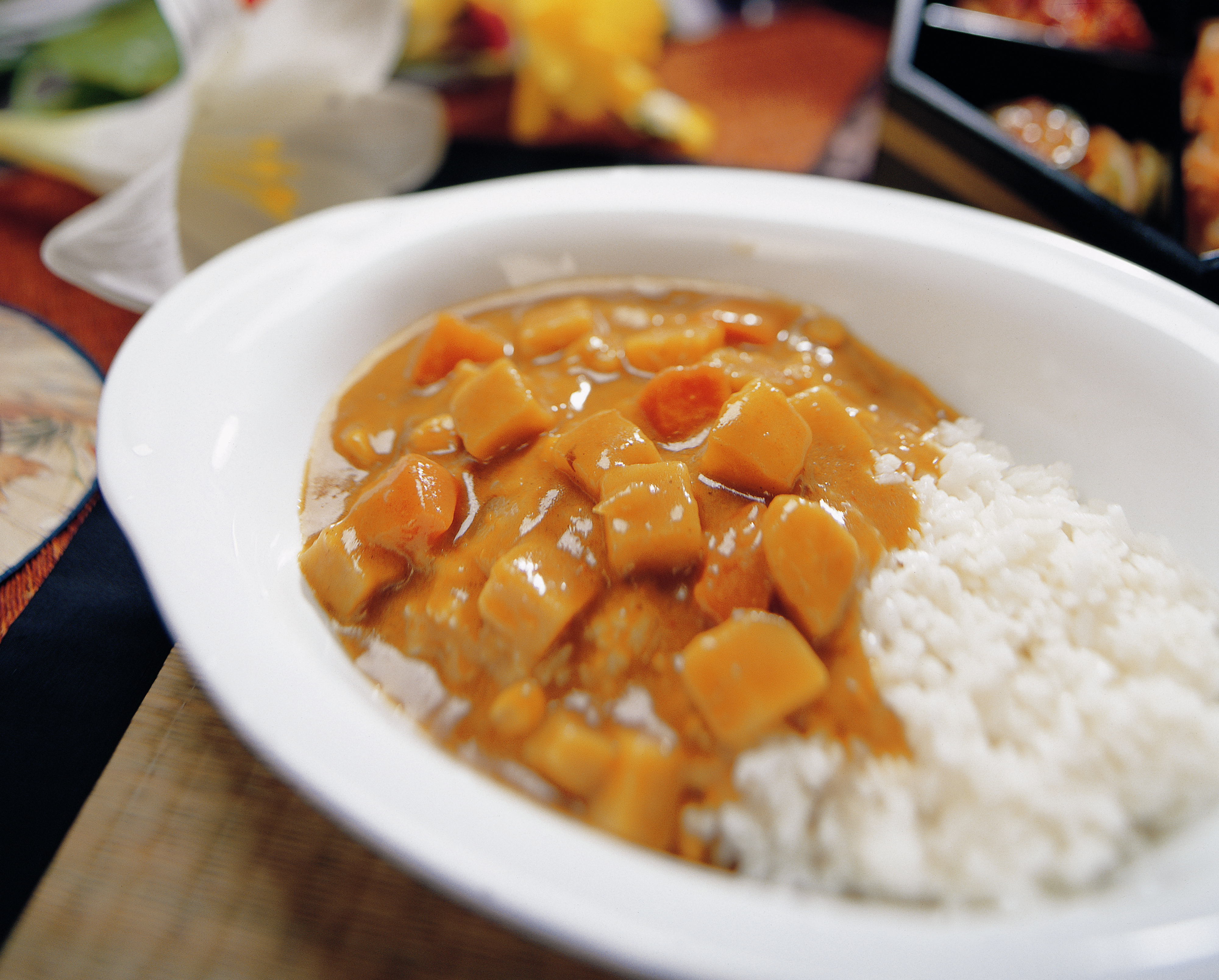 Korean curry rice